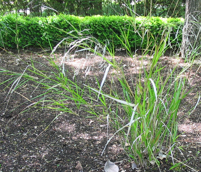 Ordo: Poales Familia: Poaceae Subfamilia: Pooideae Tribus: Stipeae Genus: Piptatherum